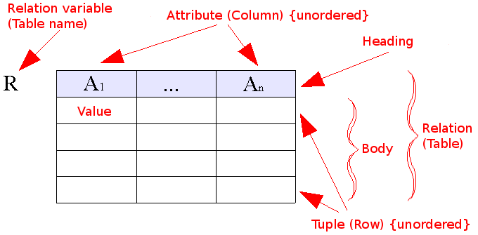 An illustration of Relational model concepts, based on Benutzer:Fragment's Bild:Begriffe relationaler Datenbanken.png.